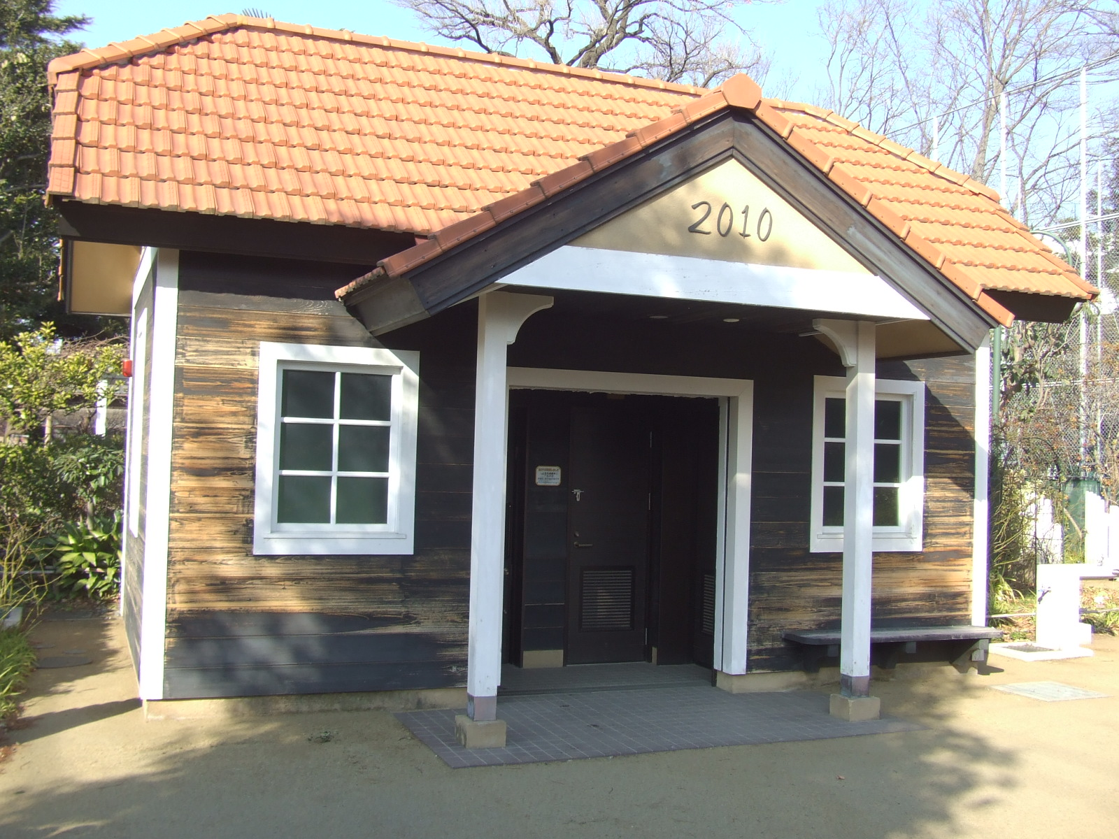 A house "Totoro likely to live in"